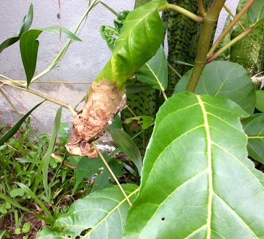 curled leaf nest of Cambodian tailorbird